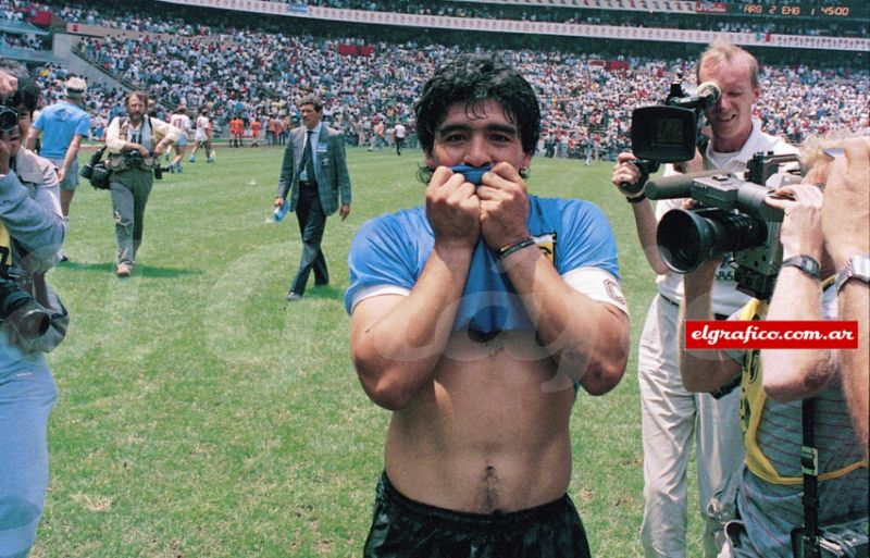 Diego Maradona kisses the Argentina jersey after he scored two goals v England at the FIFA World Cup.